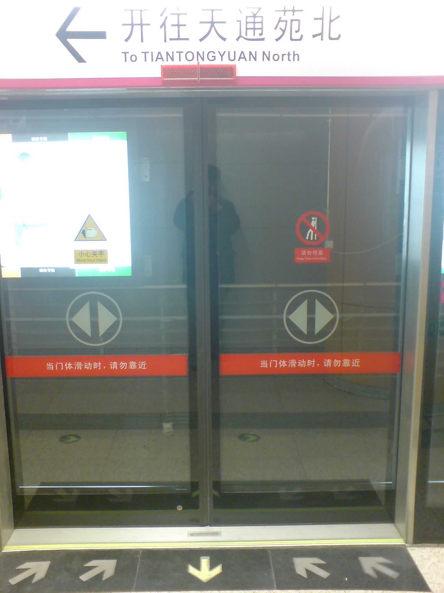 zh-cn:北京地铁5号线屏蔽门 The platform screen doors of Beijing Subway Line 5